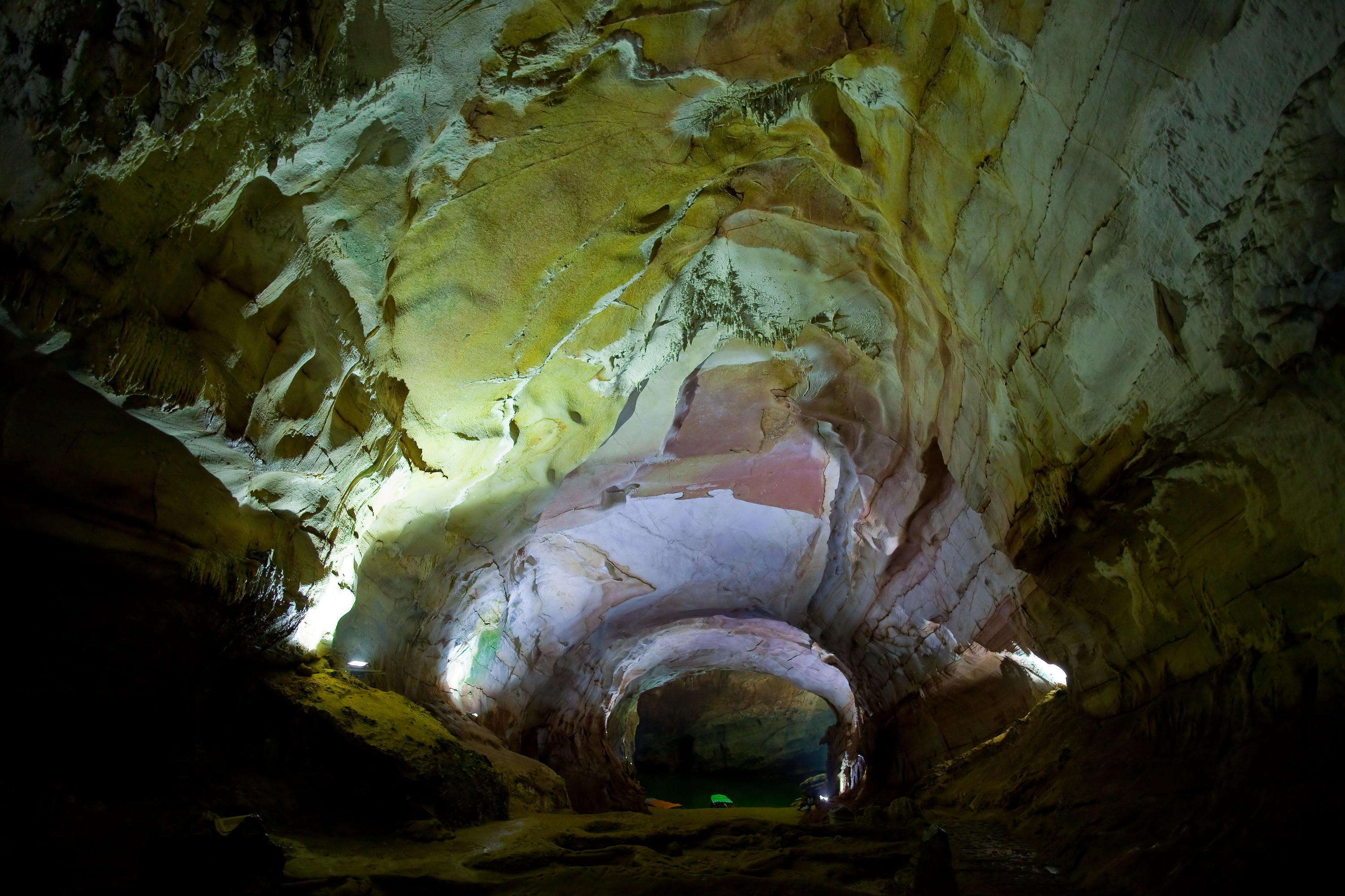 One of amazing caves in the Phong Nha-Kẻ Bàng National Park, Vietnam.